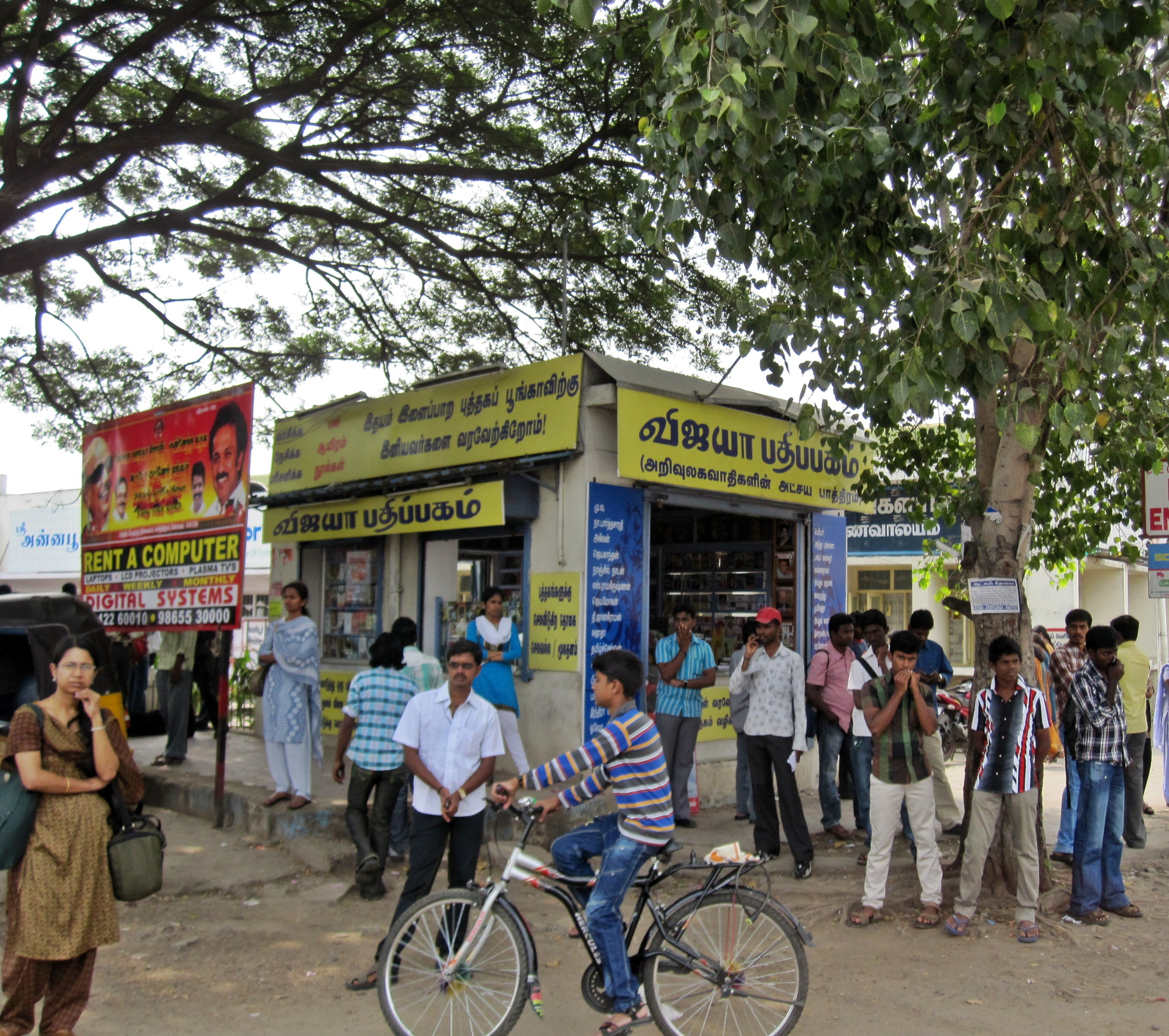 Vijaya Padippakam's book kiosk in front of the Mofussil bus stand, Gandhipuram, Coimbatore